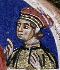 Beatrix of Burgundy